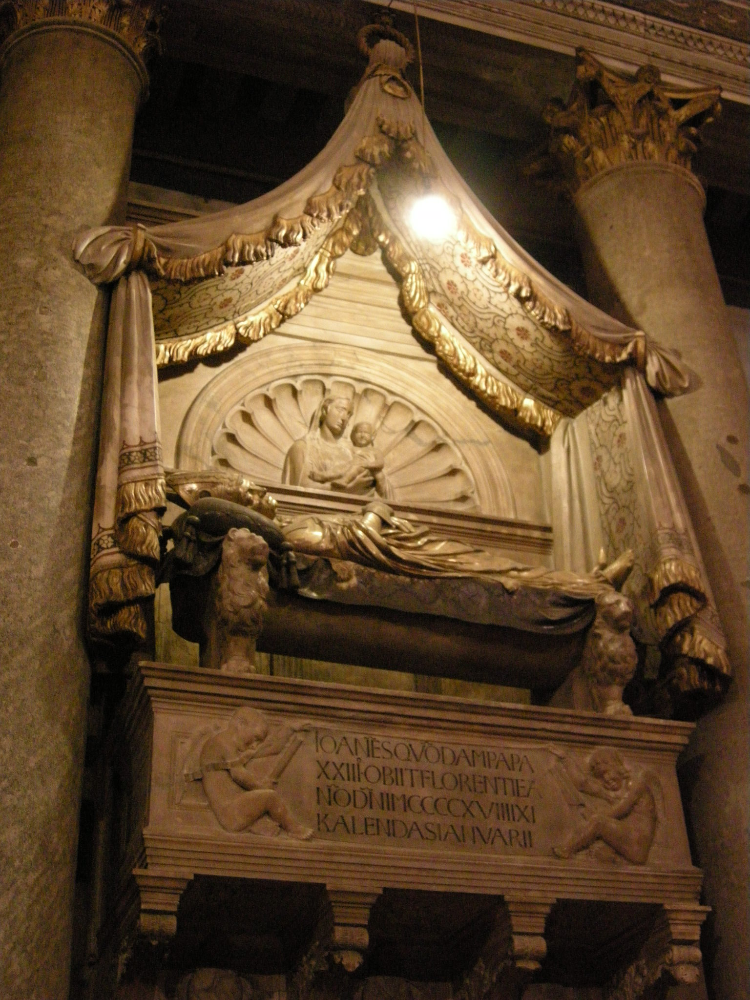 Antipope John XXIII tomb